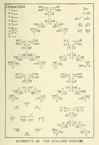 A chart from "Boyd's syllabic shorthand text book" (1903), featuring the characters used in the system. Scan contributed to by University of California Libraries.